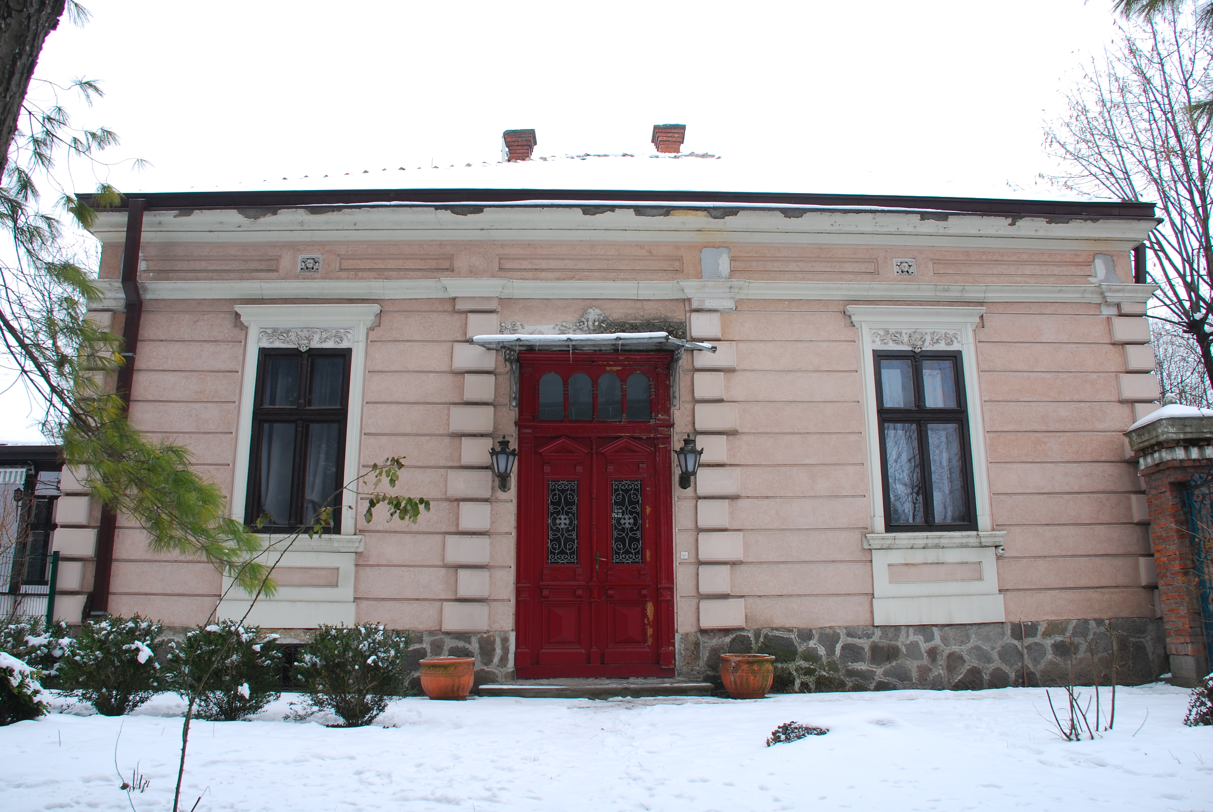 House of family Marković in Kraljevo, facade